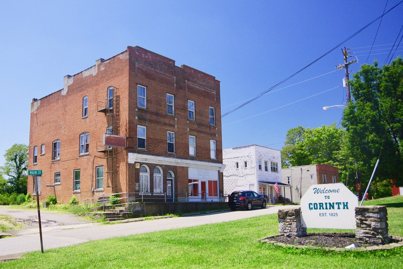 Buildings along Main Street in Corinth, Kentucky, United States.